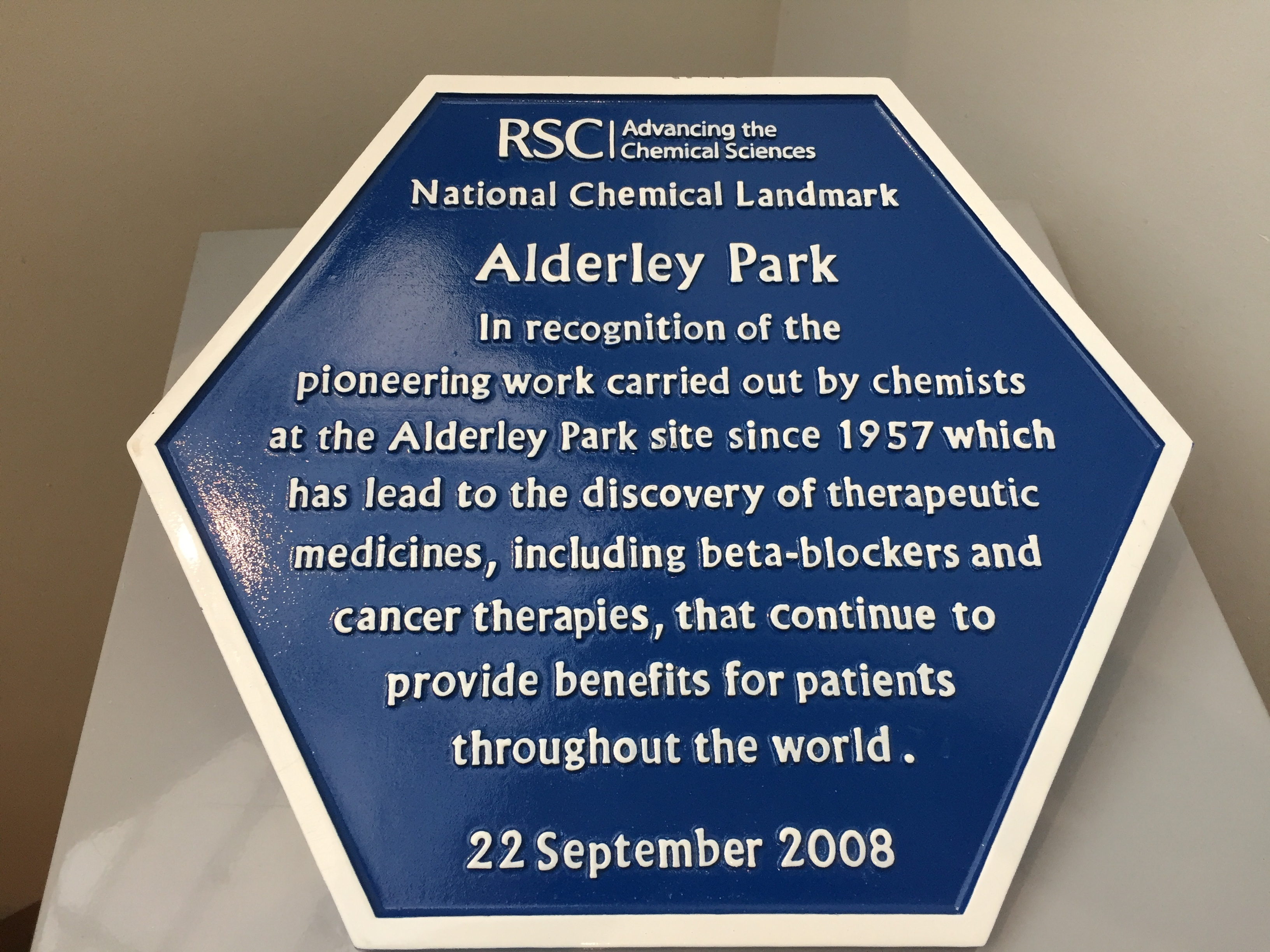 Alderley Park RSC plaque